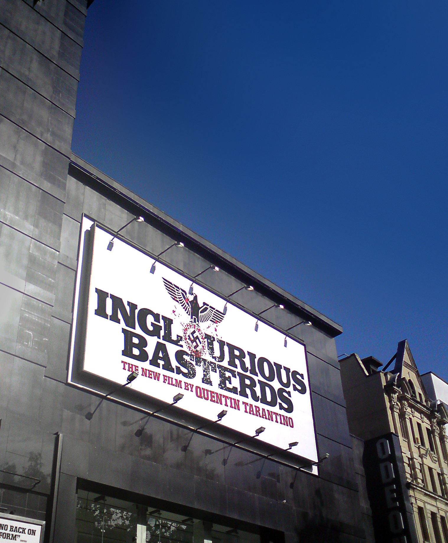 Inglourious Basterds on a glorious day.